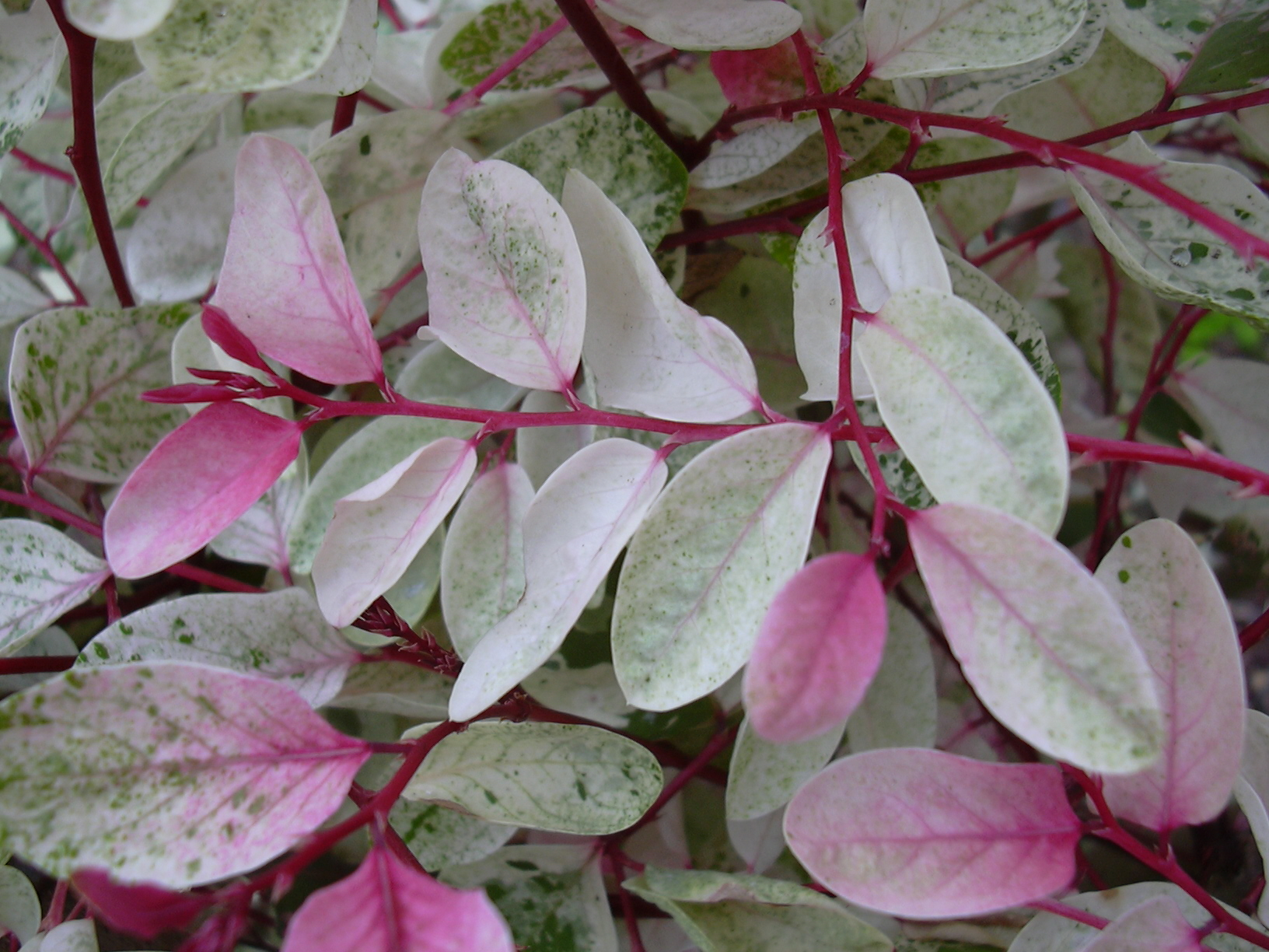 Breynia disticha (leaves). Location: Maui, Kahului